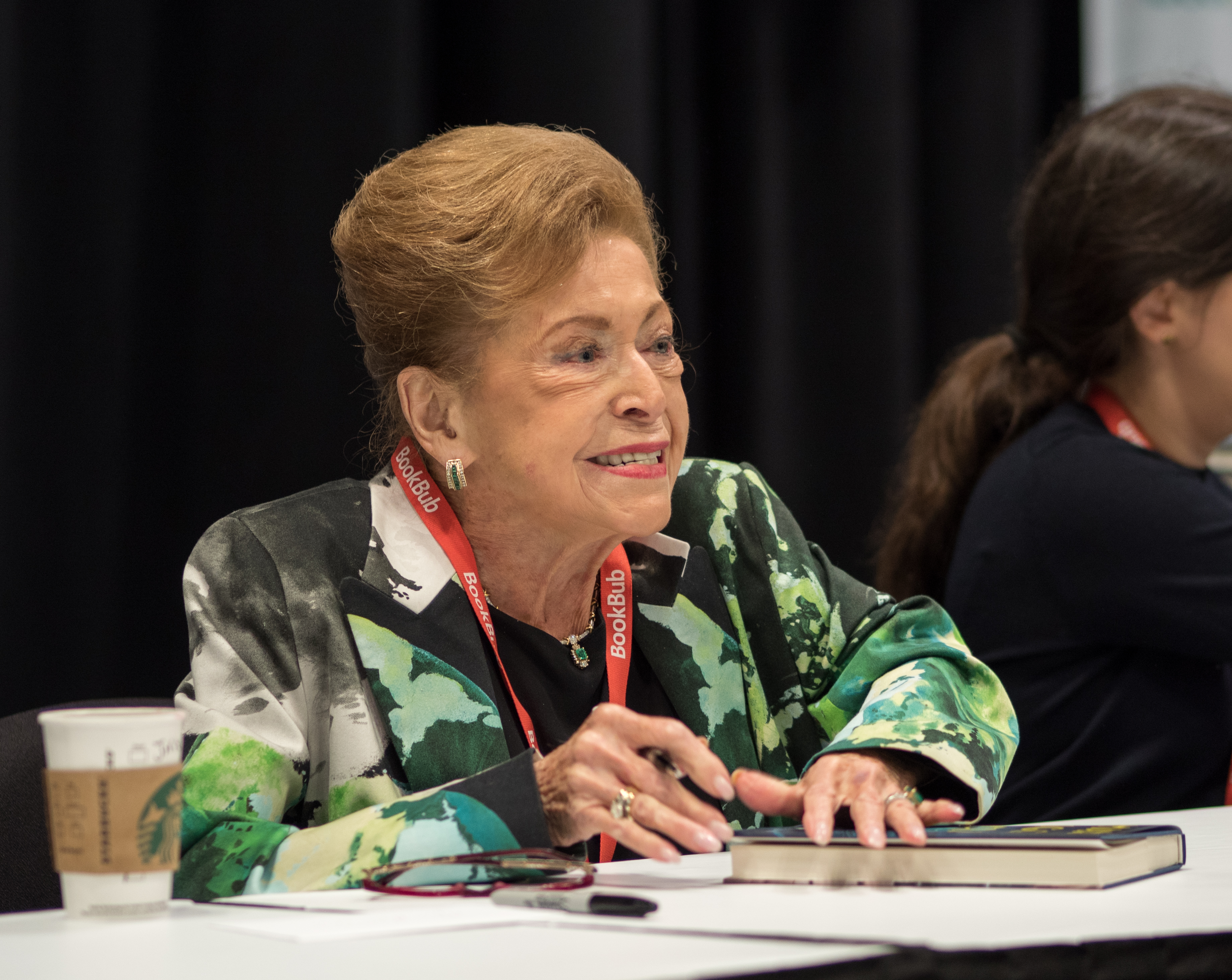 Mary Higgins Clark BookExpo America 2018 at the Javits Convention Center in New York City.